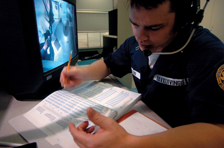 030216-N-6967M-013 The wet pod of the complex takes up nearly two floors of the building. After water inside is drained the wet pot can be opened up to add or remove equipment for the next dive. (All Hands, June 2004, pg. 24) Photo by Photographer's Mate 1st Class (AW) Shane T. McCoy. (RELEASED)